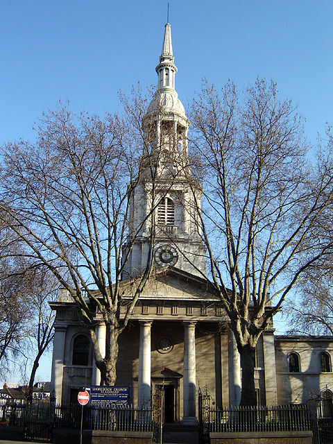 St Leonard's Church, Shoreditch High Street, Hackney, London. 28 January 2006. Photographer: Fin Fahey.